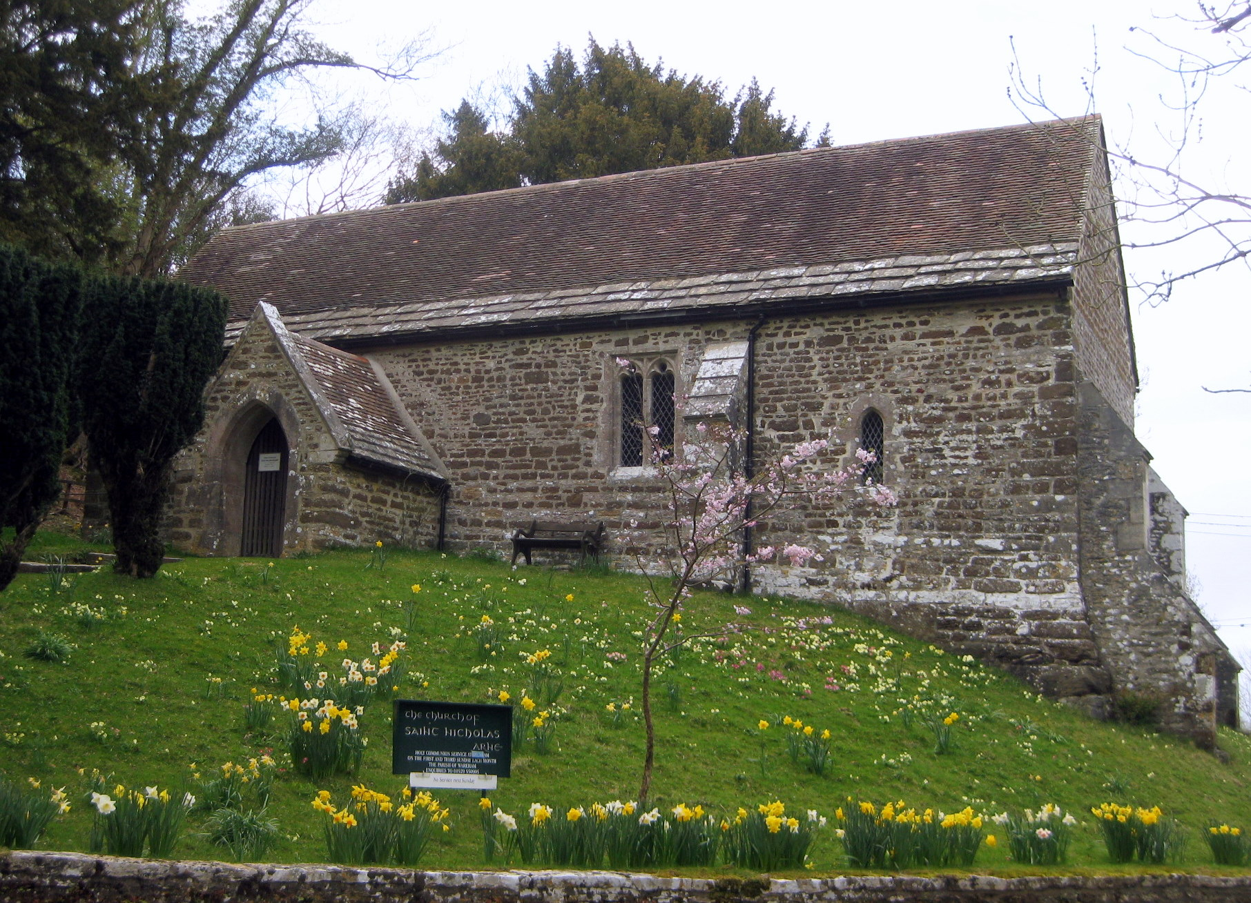 St. Nicolas Church, Arne